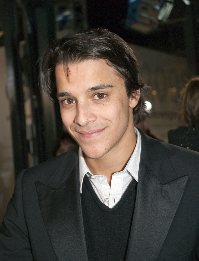 Kostja Ullmann, German actor Volkswagen People’s Night 2008